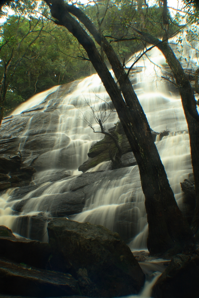 Kiliyur Waterfall near Yercaud